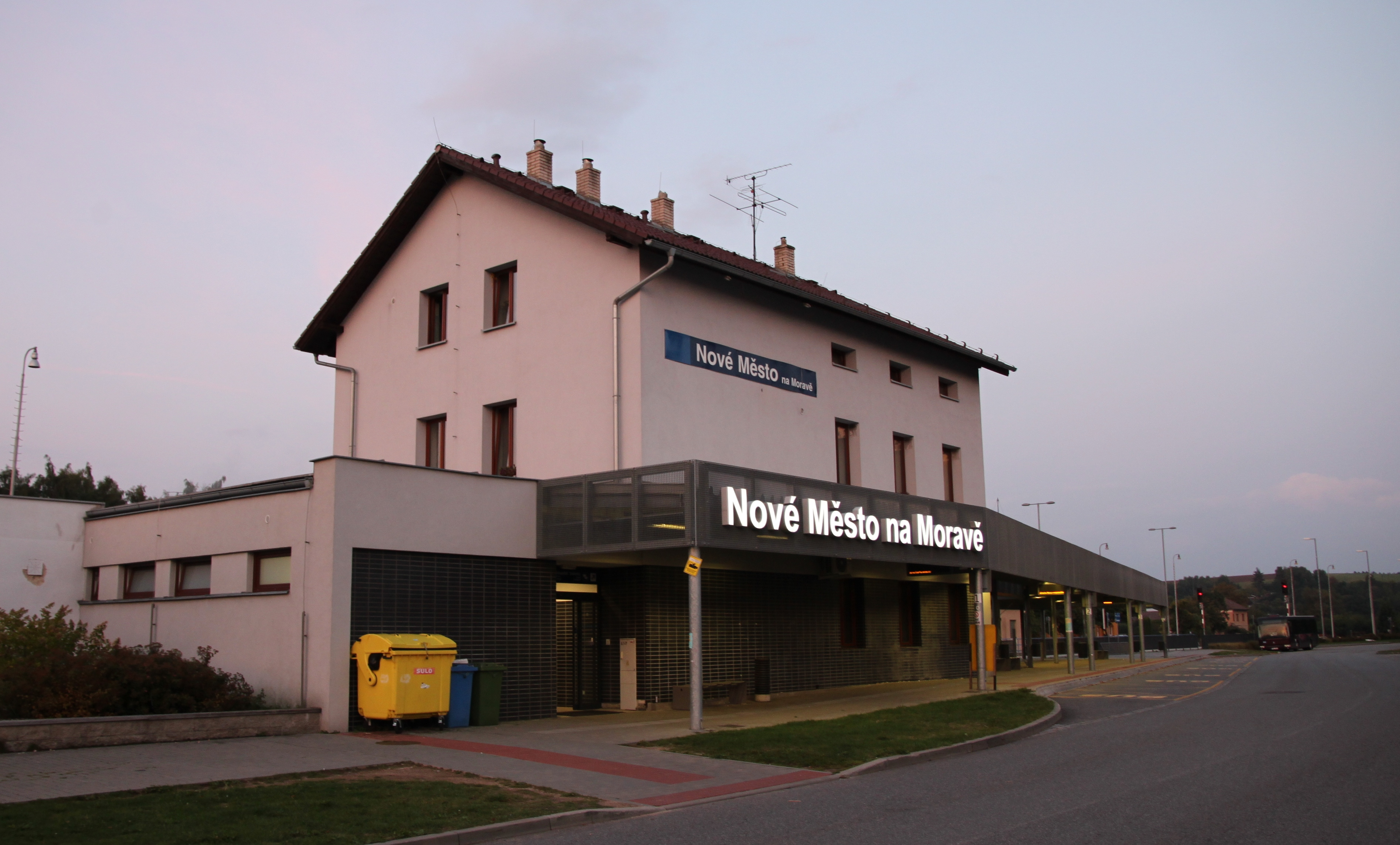 Train station in Nové Město na Moravě, Žďár nad Sázavou District, Czechia.